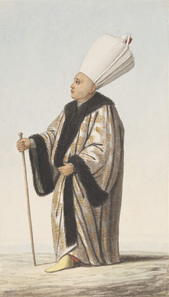 The Devşirme Ağayeri, official in charge of Janissary recruitment (Devşirme)